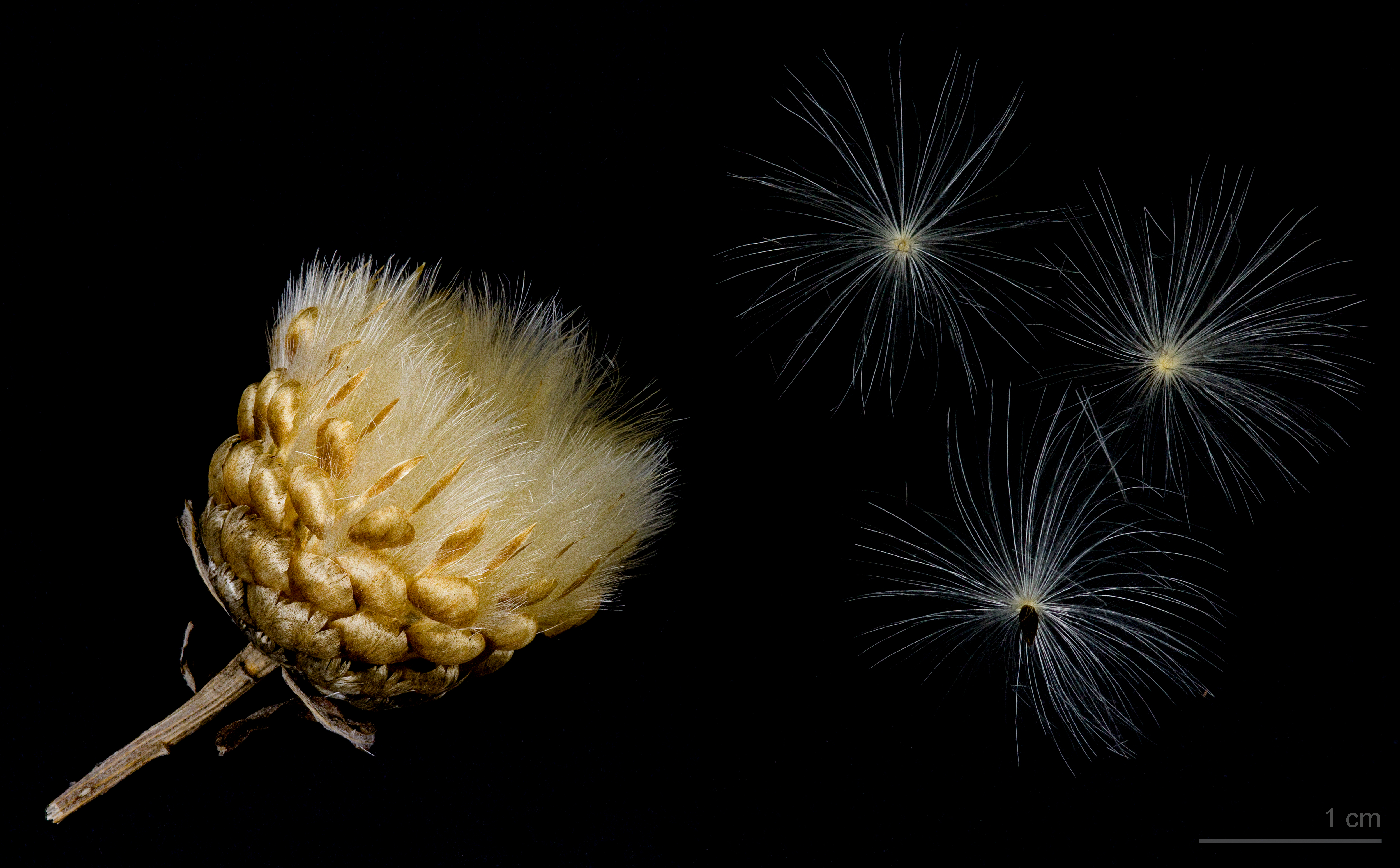 Leuzea conifera , fruits and seeds